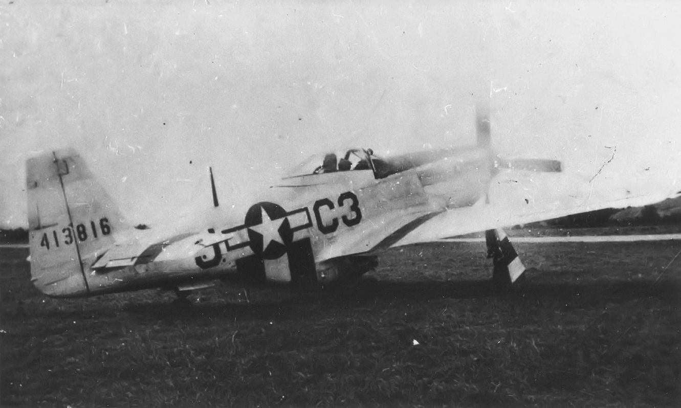 A F-6/P-51 Mustang (C3-J, serial number 44-13816) of the163d Tactical Reconnaissance Squadron, 363d Tactical Reconnaissance Group, 9th Air Force, at Sandweiler Airfield, Lux (A-97) in October 1944.